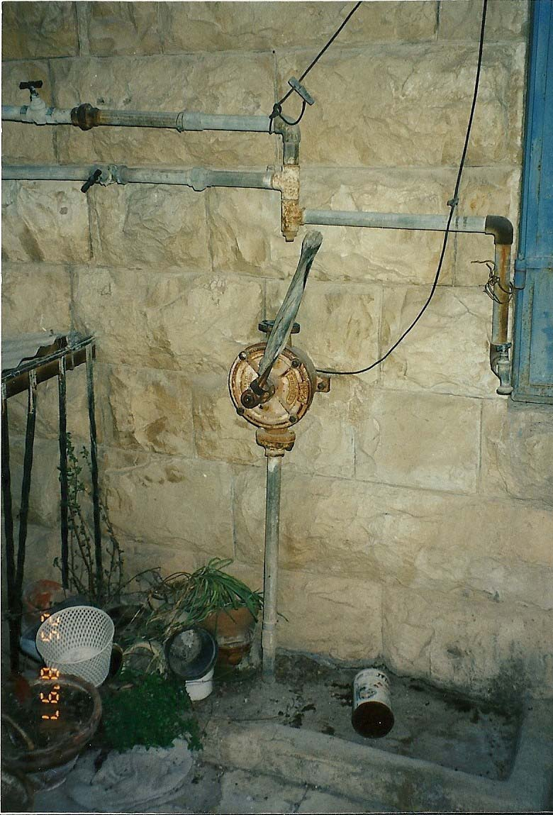 Pump through which water was pumped from underground pit, in rabbi Eliahu Lopez home, Bayit VaGan, Jerusalem